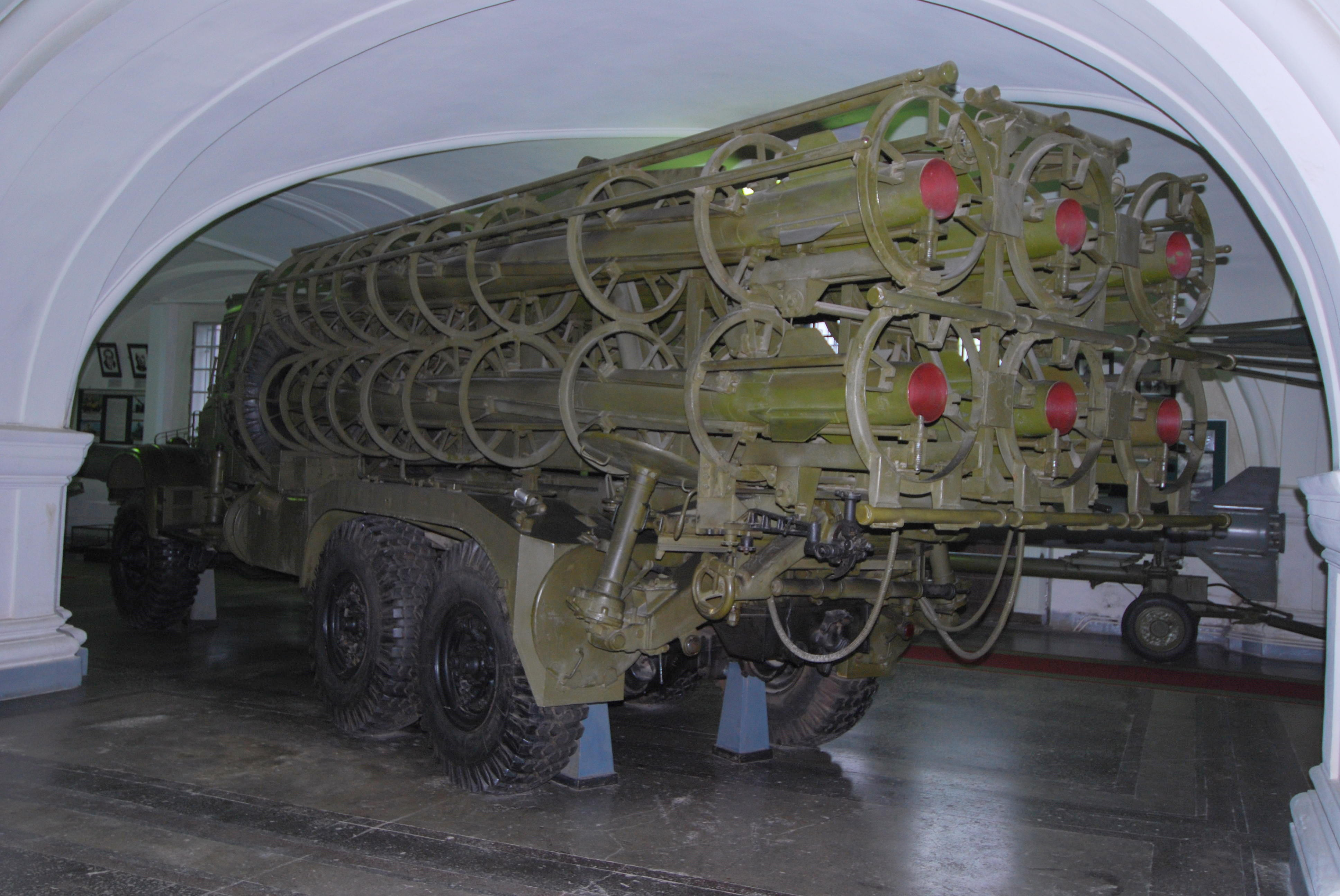 Rear view of 2P5 Transporter-Erector-Launcher with six 3R7 missiles of 2K5 missile complex «Korshun» in Saint Petersburg Artillery museum